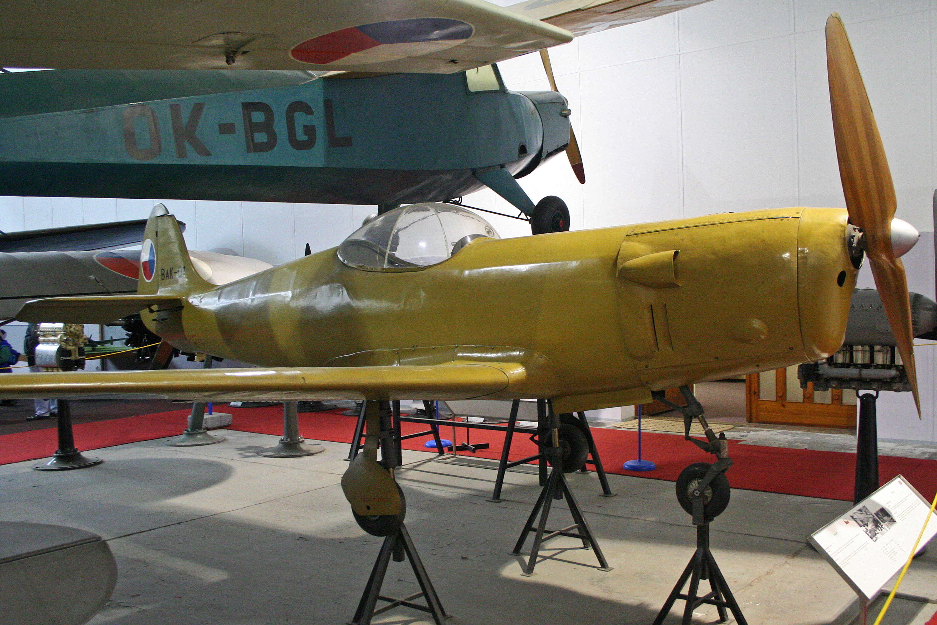 msn 1. On display in the Post War hangar, Kbely Museum, Czech Republic. 07-10-2012